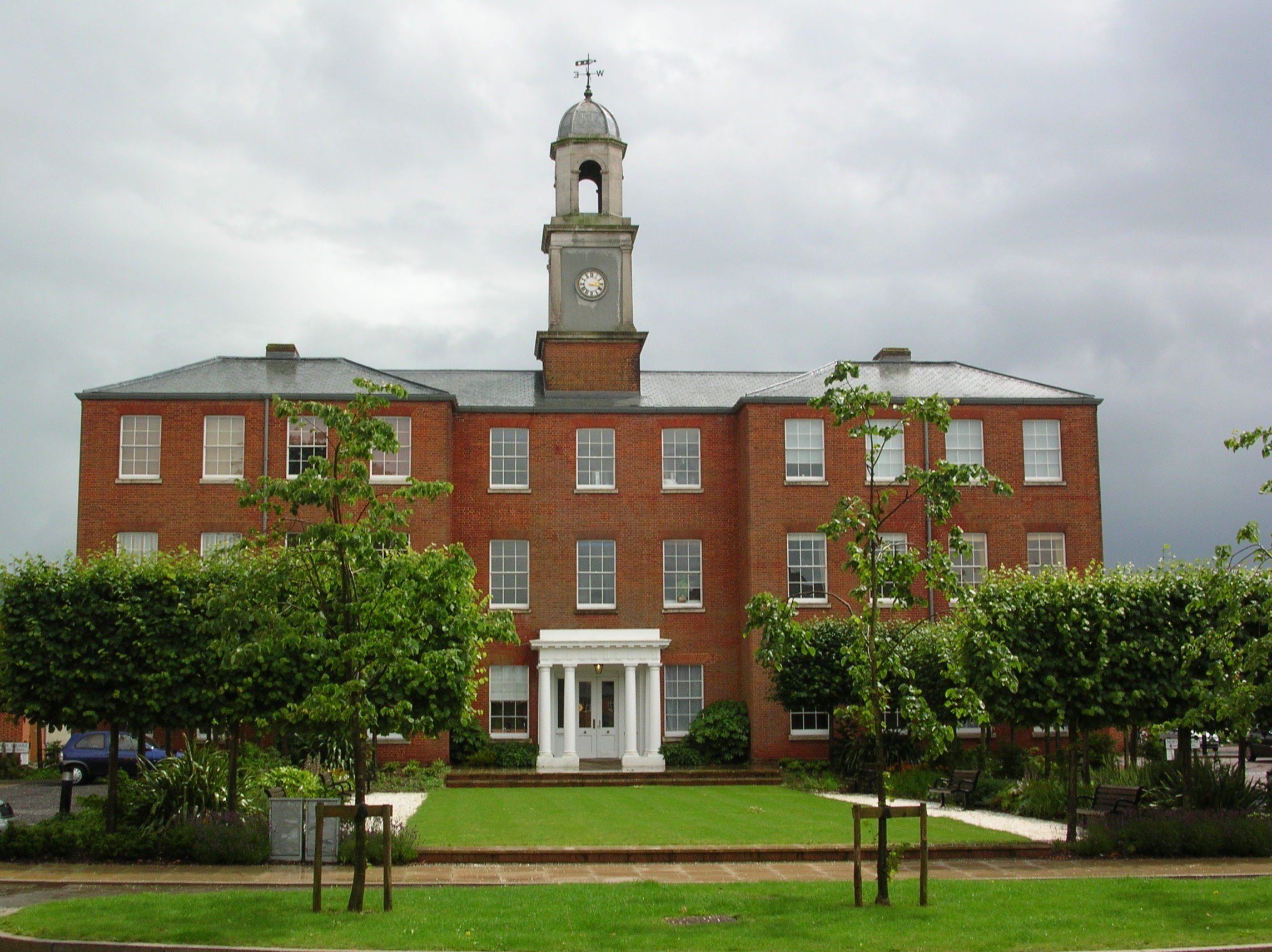 Main building of the former Hampshire County Lunatic Asylum (later Knowle Mental Hospital), now redeveloped as exclusive apartments at Knowle Village, Hampshire, UK.